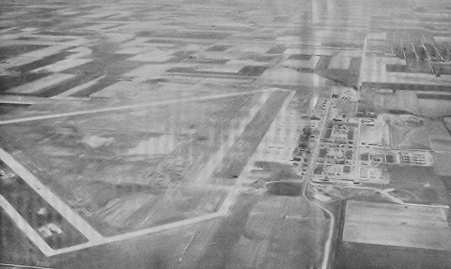 Photo of Harvard Army Airfield, 1945 (now Harvard State Airport). Taken from the final issue of the base newspaper prior to the airfield's closing.